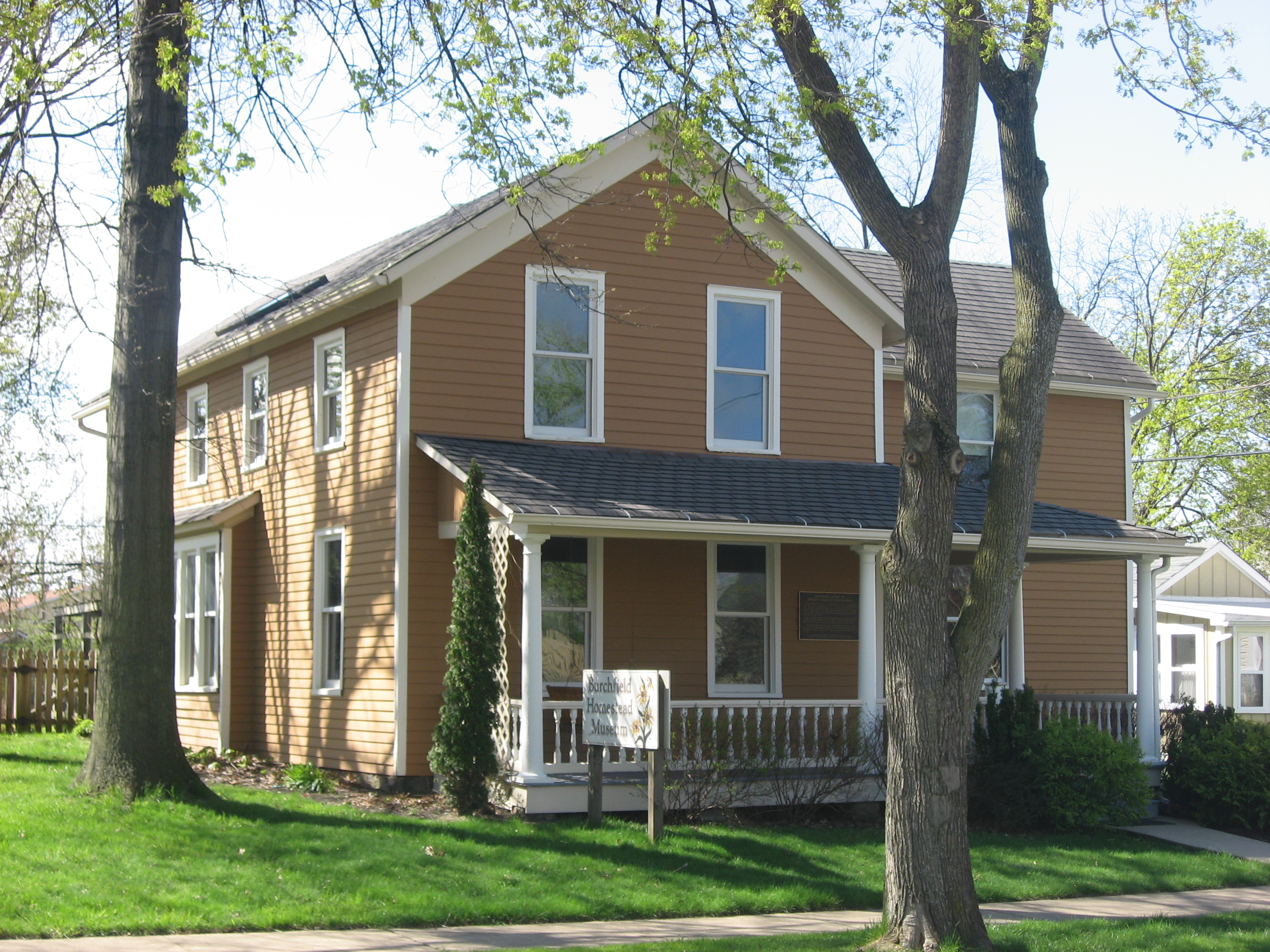 Front of the Burchfield Homestead, located at 867 E. Fourth Street in Salem, Ohio, United States. Built in 1898 and the home of artist Charles E. Burchfield, it has been converted into a museum, and it is listed on the National Register of Historic Places.